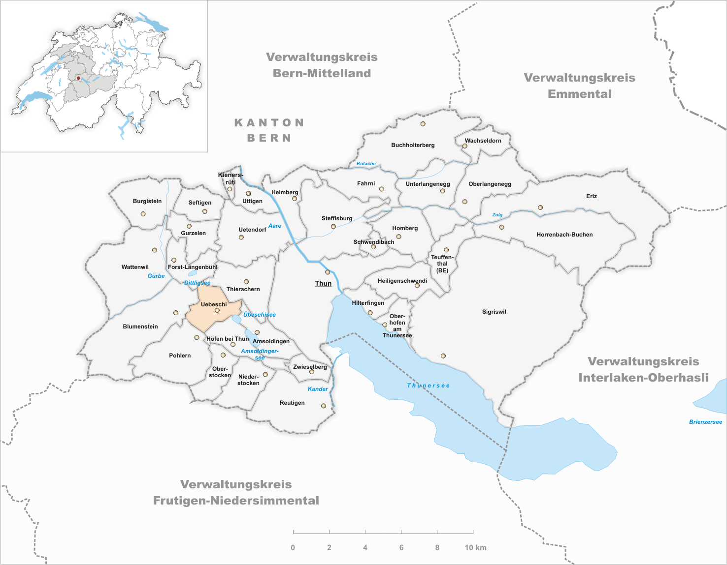 Municipality Uebeschi